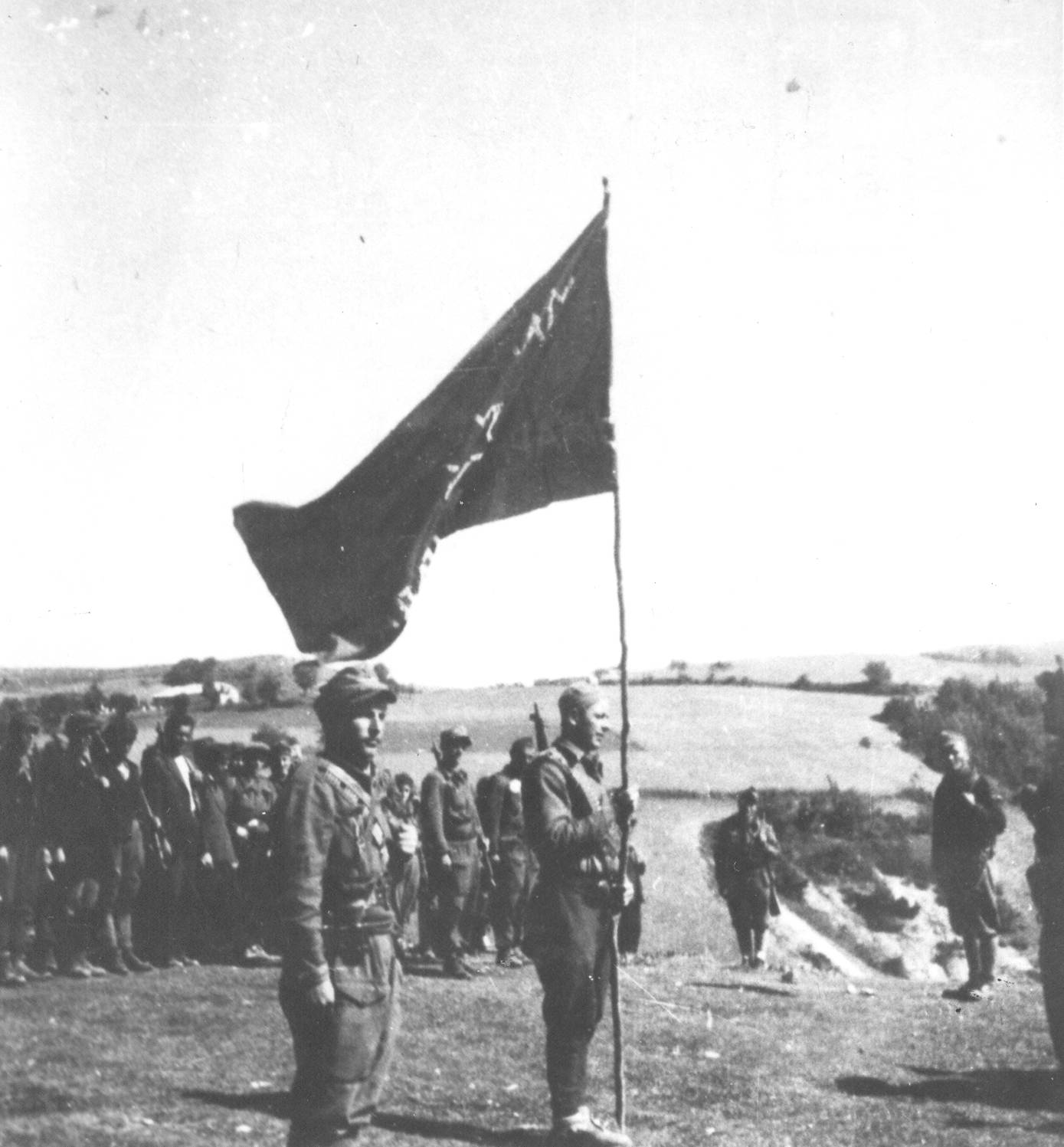 Formation of the 1st Macedonian brigade, Lokov near Struga, 8 June 1944.